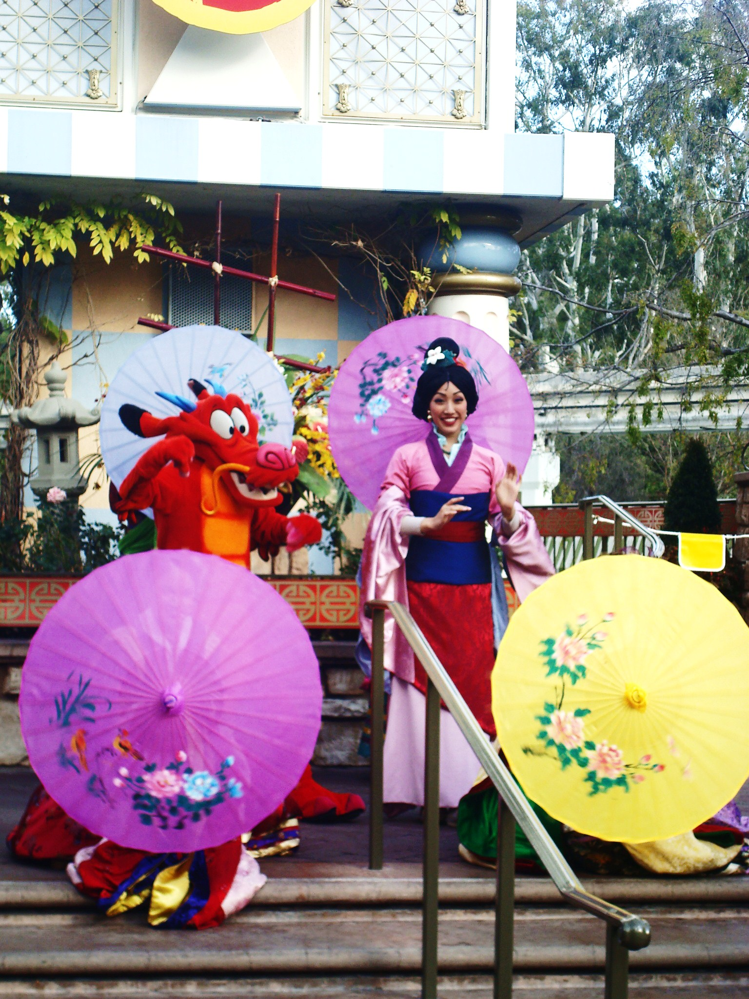 Musha and Mulan at Disneyland.